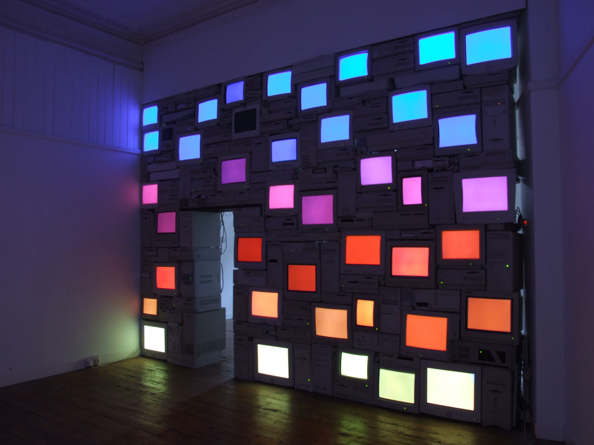 Sandy Smith's installation "Mauritian Sunset", exhibited at Embassy Gallery, Edinburgh.